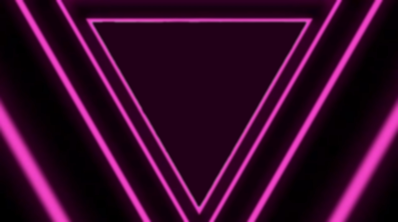 Pink triangles of the Born This Way's music video.